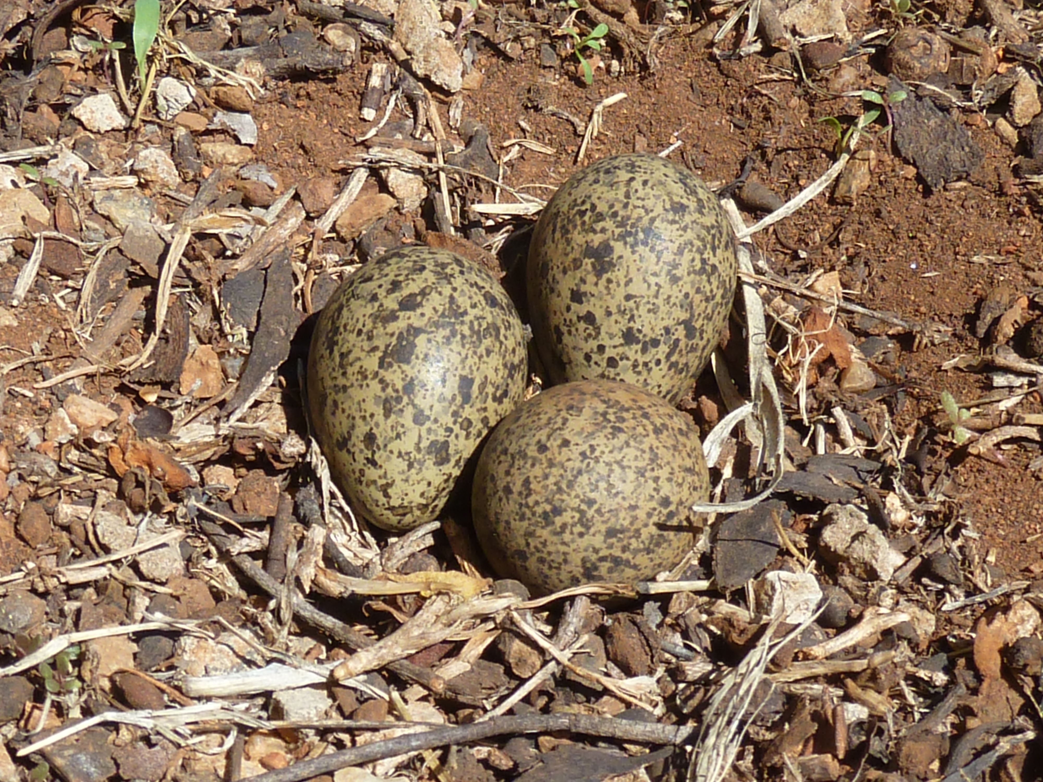 Nest of Crowned Lapwings, a shallow depression with accumulated plant debris